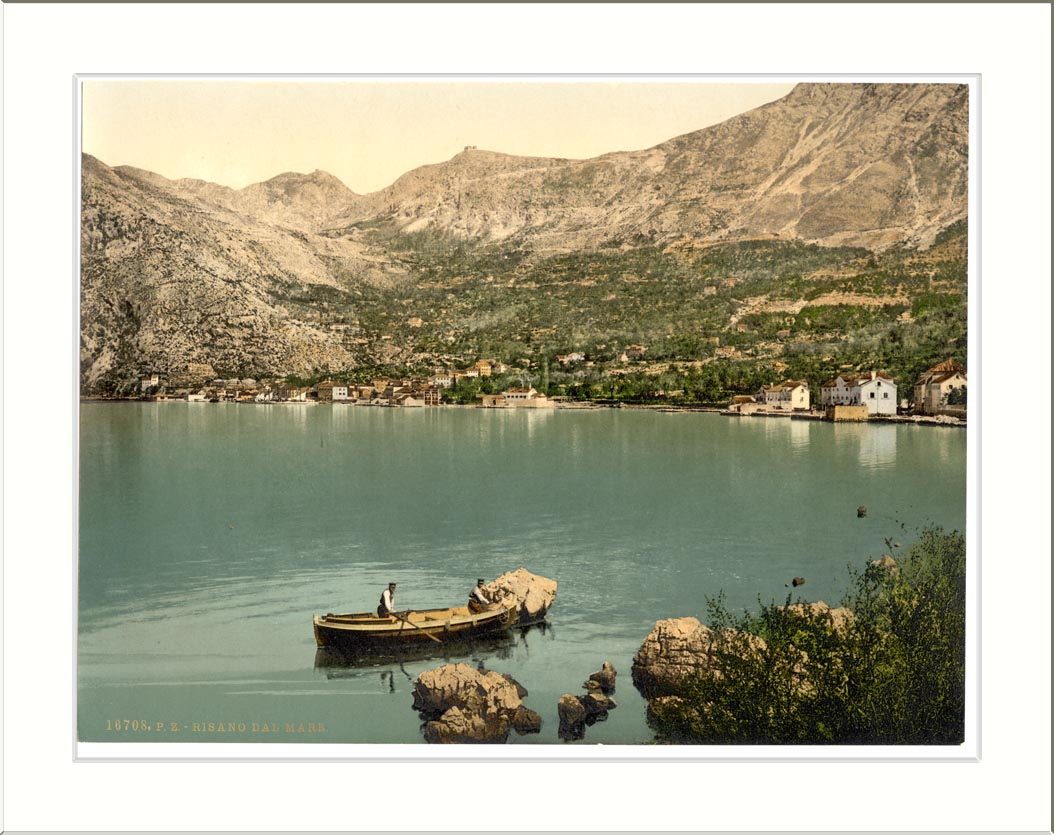 between ca. 1890 and ca. 1900. Print no. 16708. Views of the Austro-Hungarian Empire 1 photomechanical print : photochrom color. Library of Congress Prints and Photographs Division Washington D.C. 20540 USA Risano from the sea Dalmatia Austro-Hungary between ca. 1890 and ca. 1900. Print no. 16708. Views of the Austro-Hungarian Empire 1 photomechanical print : photochrom color. Library of Congress Prints and Photographs Division Washington D.C. 20540 USA